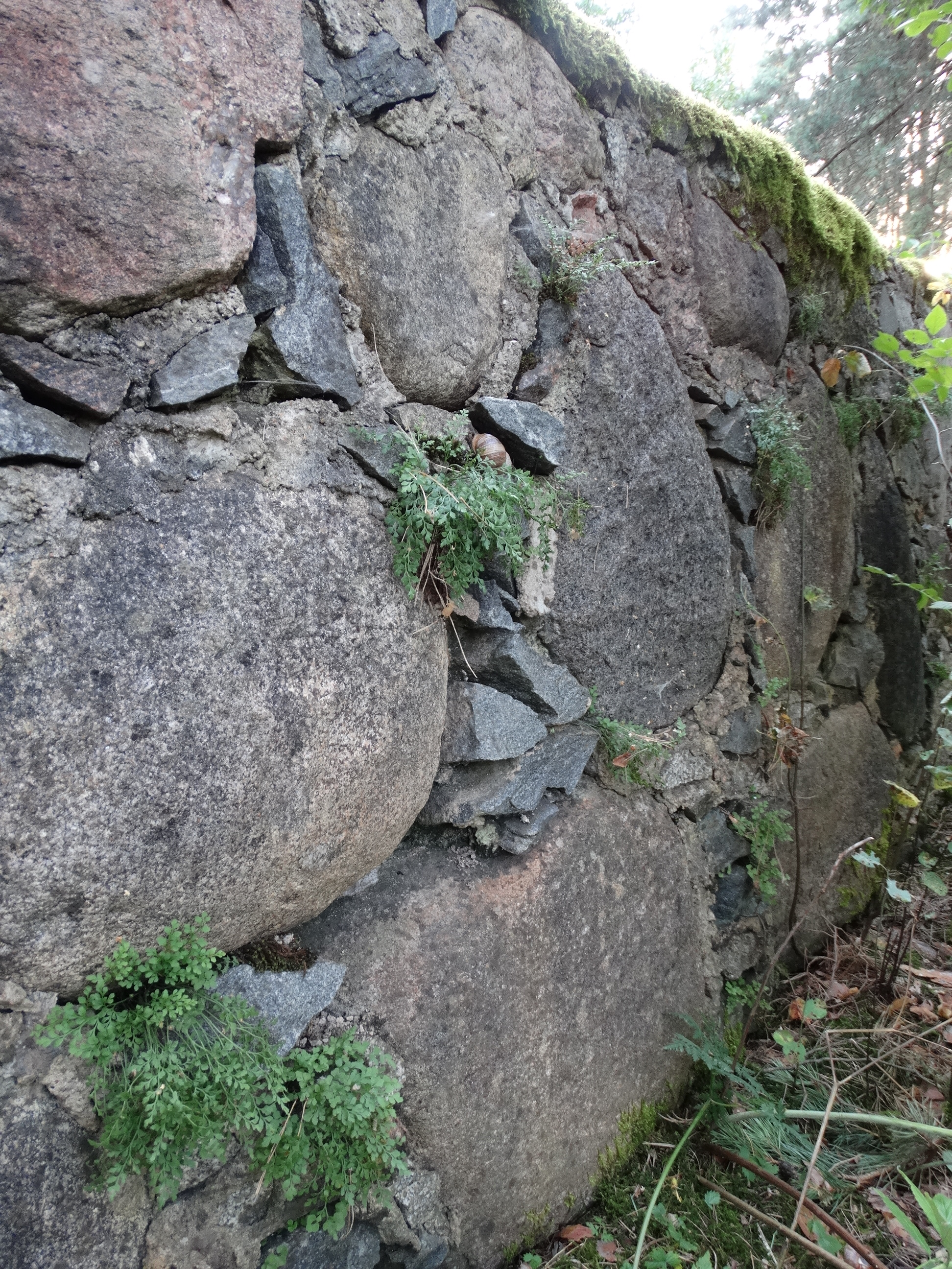 Asplenium ruta-muraria, cemetery fence, Svėdasai, Lithuania